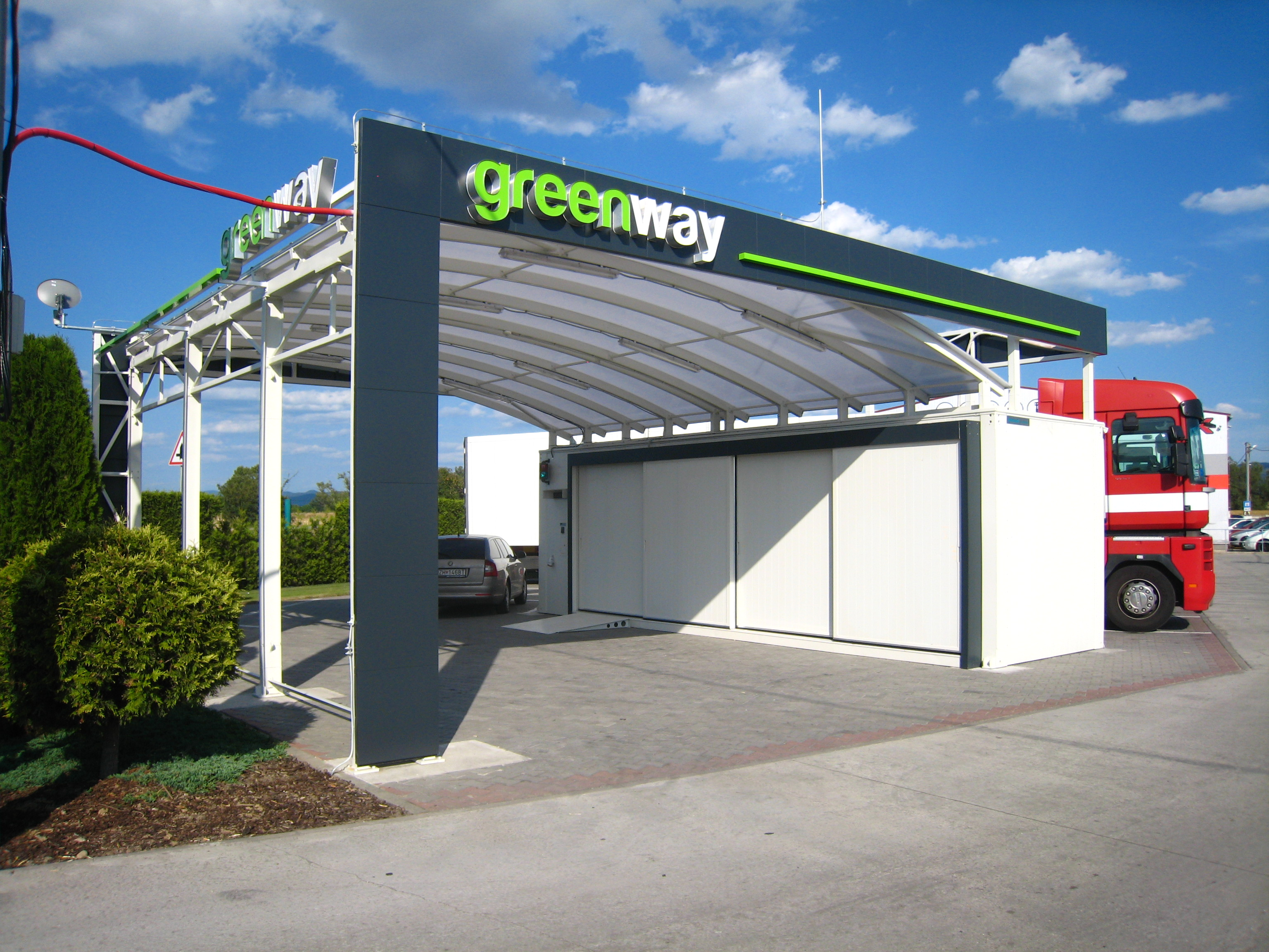 Voltia / Greenway Battery Swap Station in Slovakia